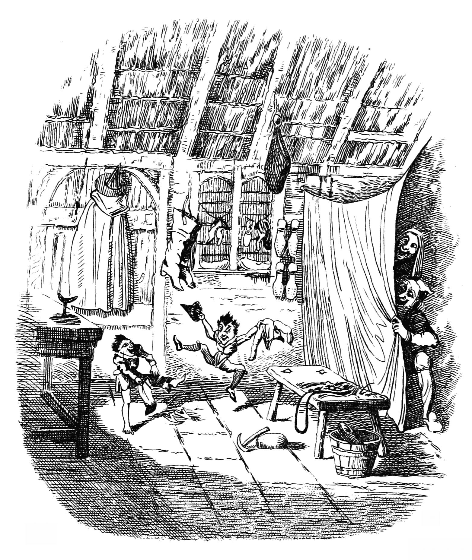 Illustration for a Grimm fairy tale